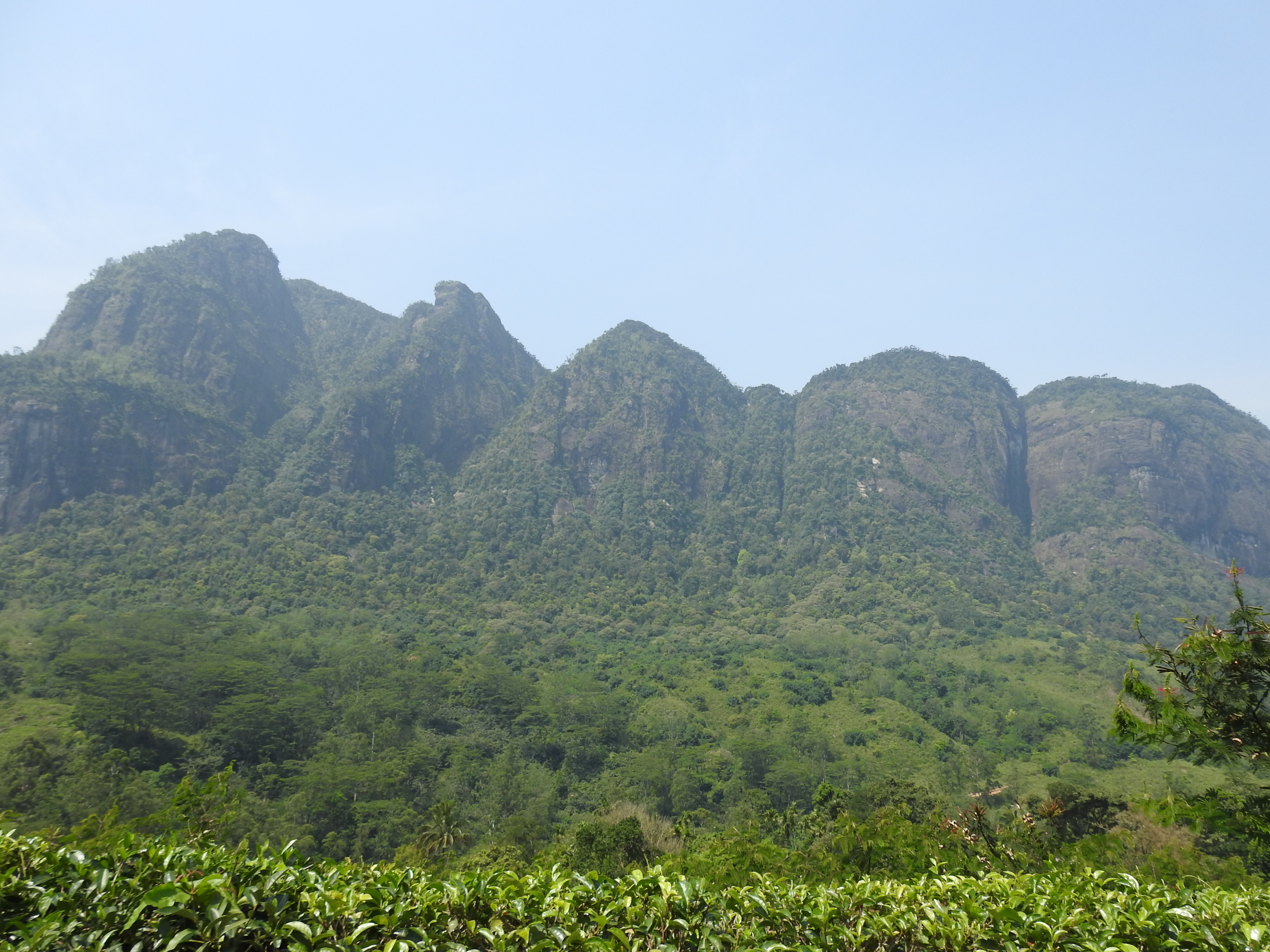 This photo was taken as part of a photo project by Wikimedia Community User Group Sri Lanka, covering current/future hydroelectric dams (and its surroundings) in the Central and Sabaragamuwa provinces of Sri Lanka. User:Rehman handled the photography, while User:Azeez and User:PasinduBR handled the logistics/planning of routes. Description of photo: Virgin Hills Further information on the subject(s) of the photograph may be found in the category/ies of this file.